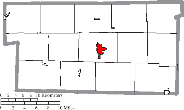 Map of the municipal and township boundaries of Holmes County, Ohio, United States, as of the 2000 census, with the location of the village of Millersburg highlighted. Township borders are shown only in unincorporated areas in order to differentiate incorporated and unincorporated areas more clearly.